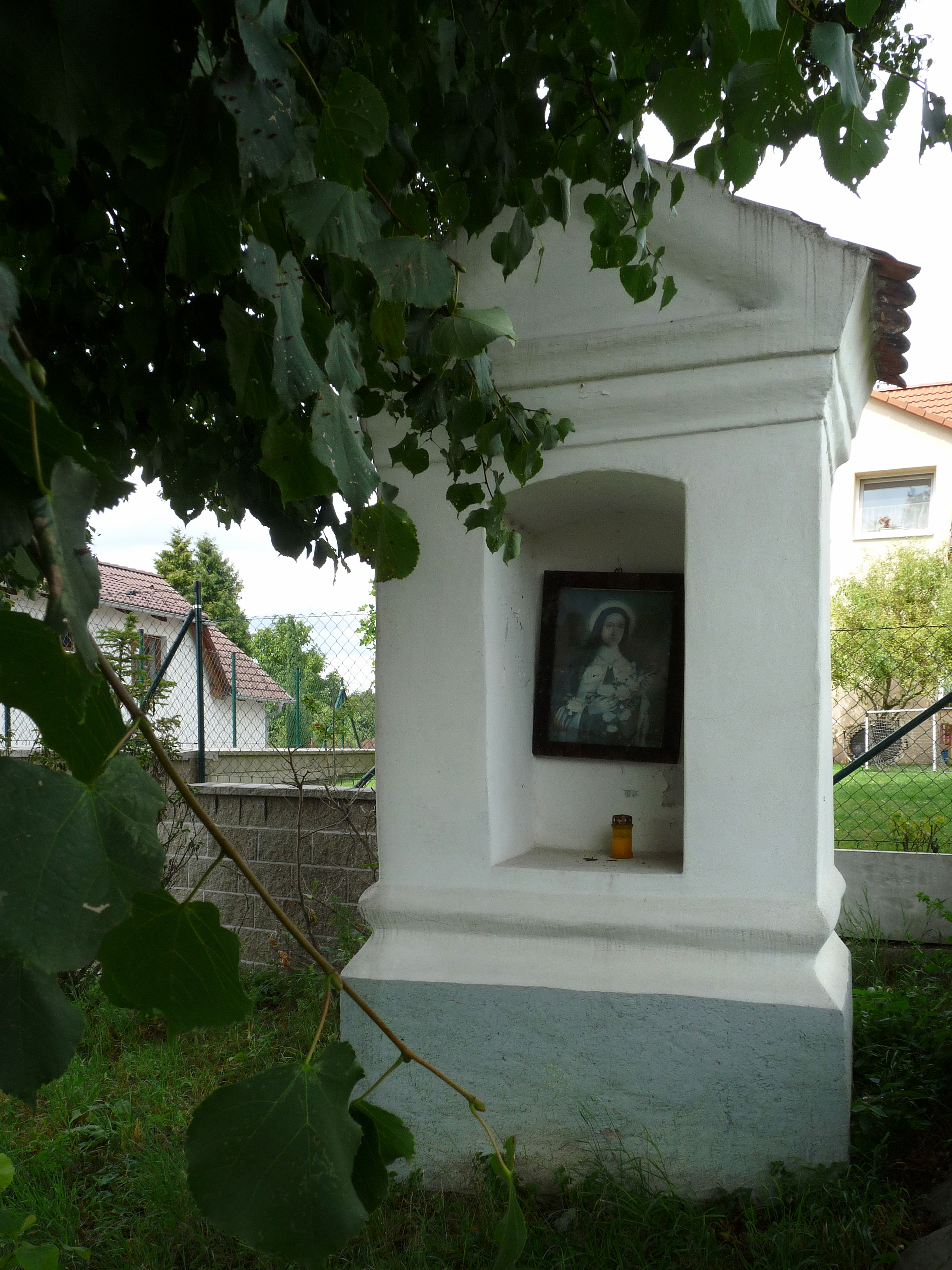 Wayside shrine in the village of Doubravice, České Budějovice District, Czech Republic.